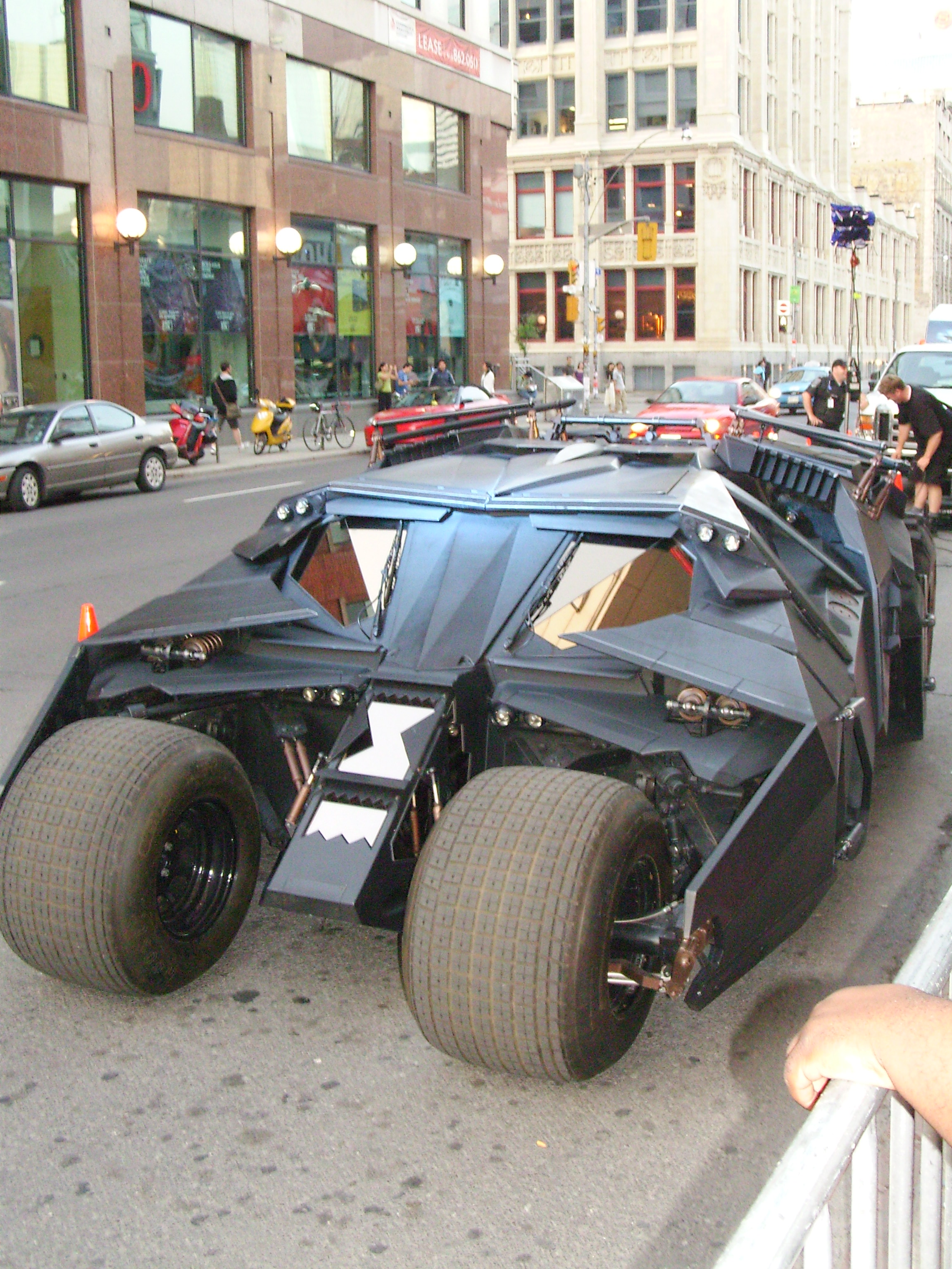 Batmobile "Tumbler" on display in front of Scotiabank Theatre, Toronto, Canada, July 11, 2008.